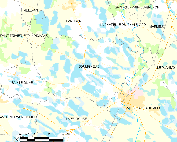 Map of French commune: Bouligneux Map commune FR insee code 01052.png